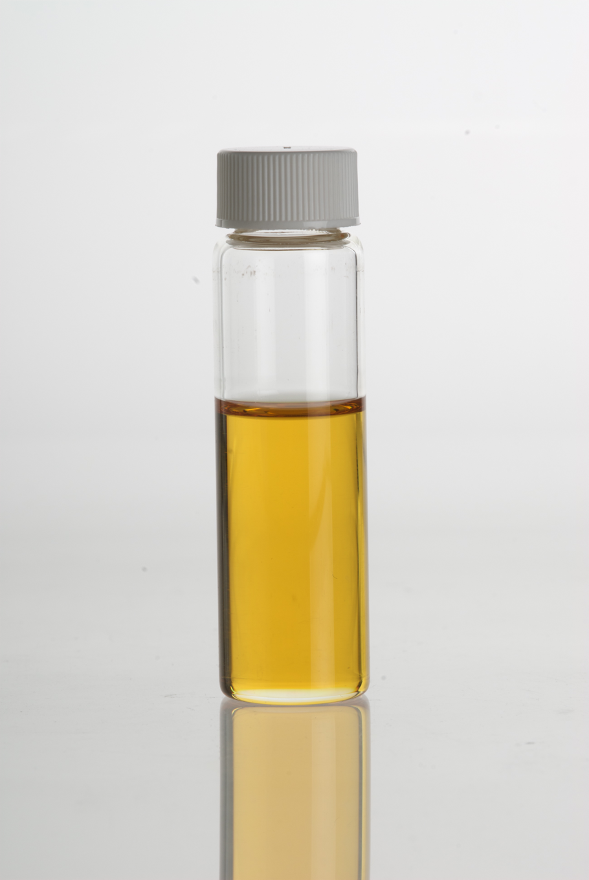 Thyme (Thymus vulgaris) Essential Oil in clear glass vial